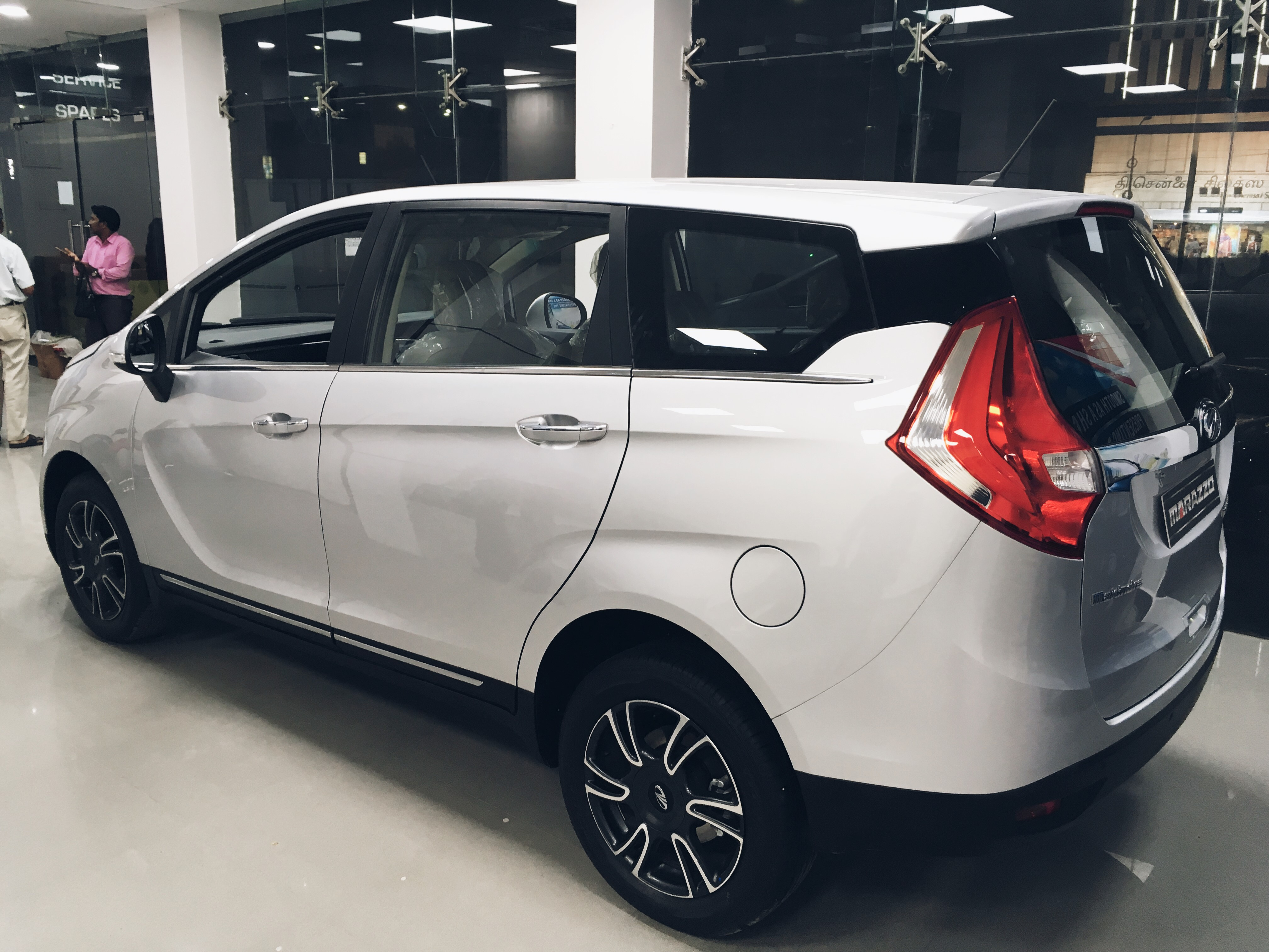 Mahindra Marazzo MPV launched by Mahindra & Mahindra in 2018 at a showroom in Chennai